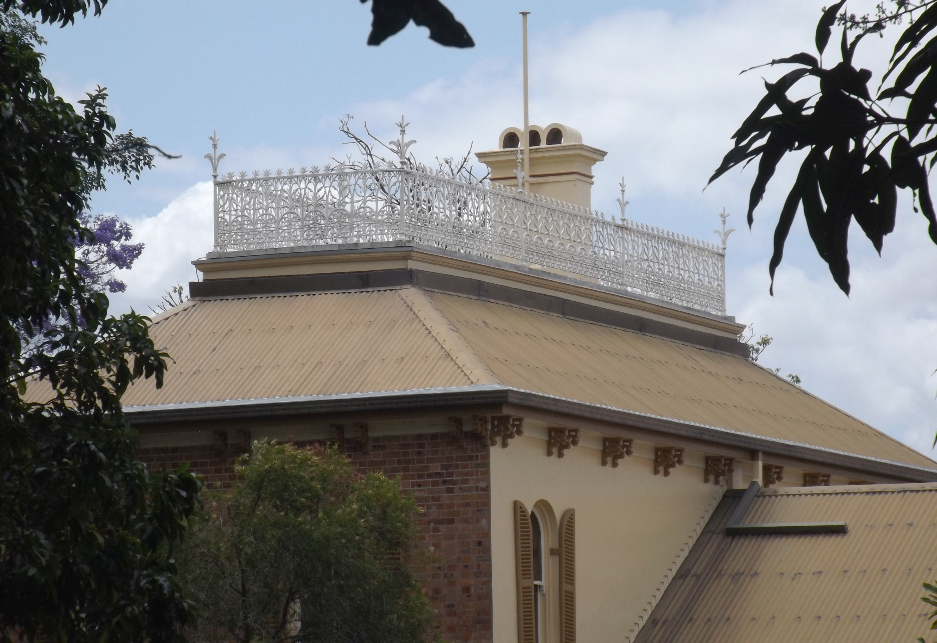 Photo of the rooftop of Rockton at Newtown, Ipswich, Queensland, Australia.